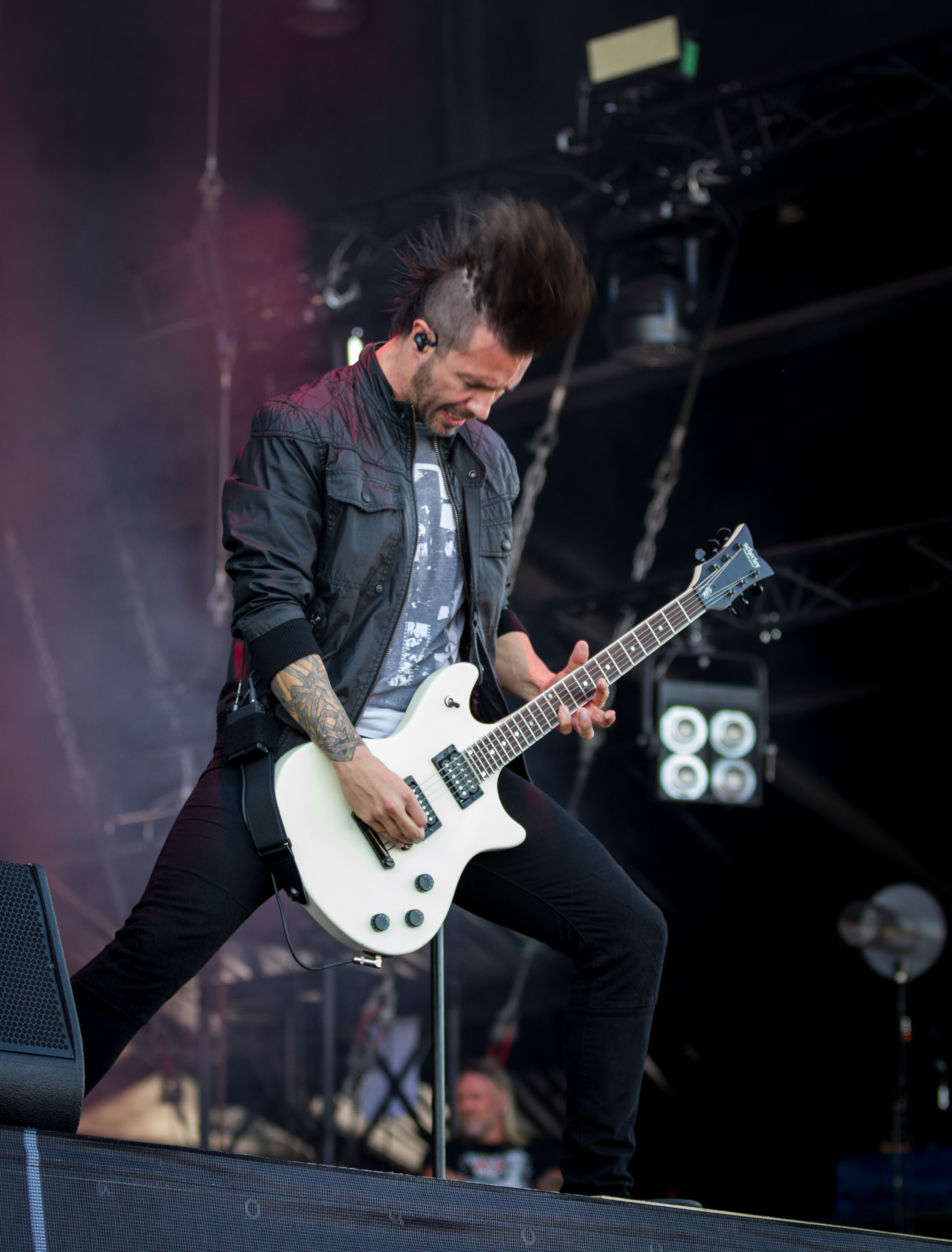 Papa Roach - Rock am Ring 2015